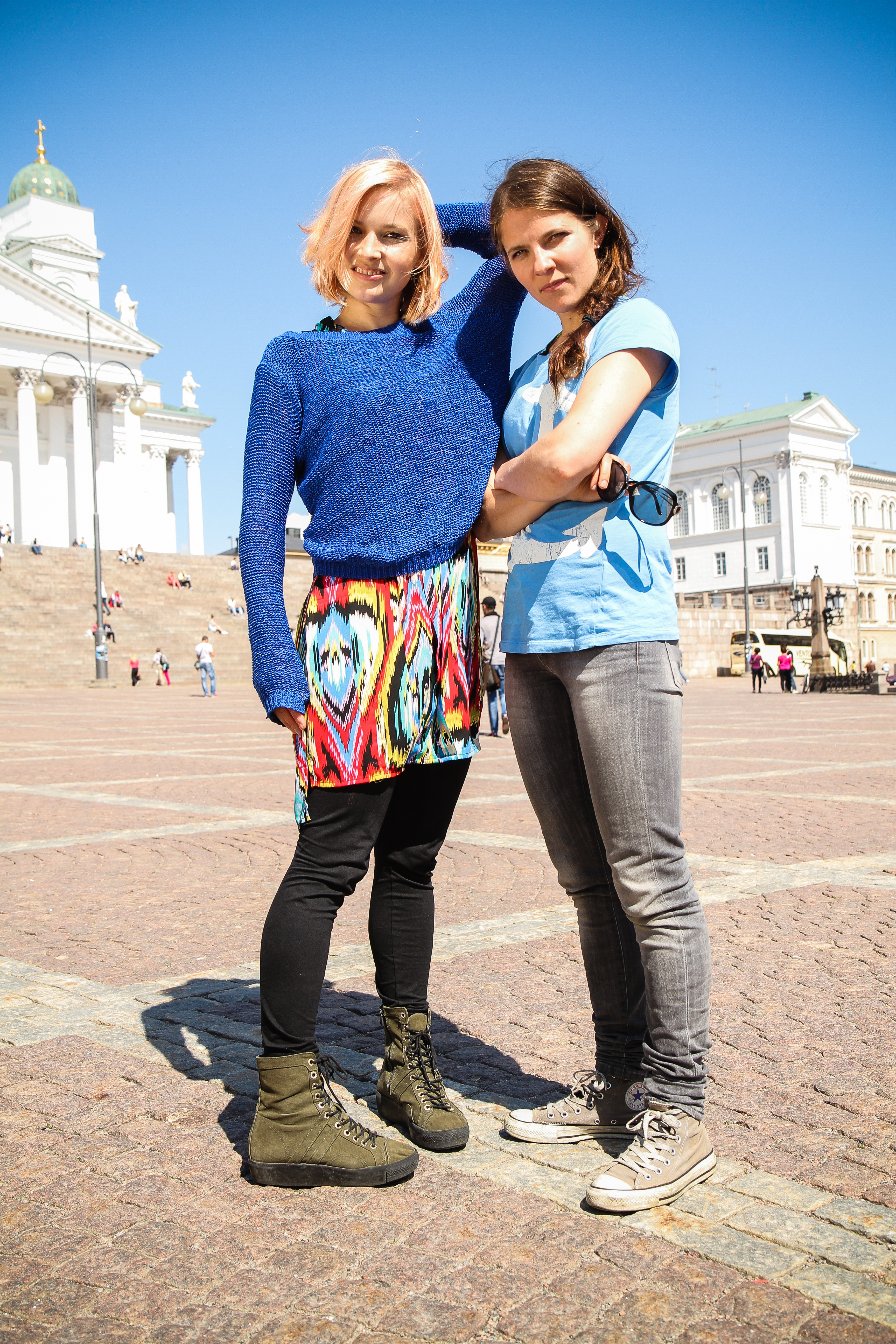 Marja Salo (vas) ja Anna Paavilainen_Hetkiä kaupungissa